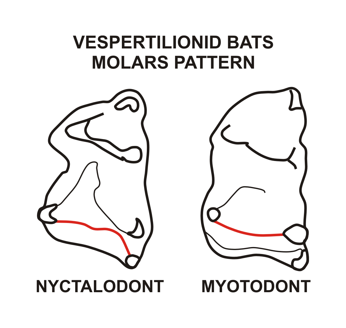 According to Francis, 2008